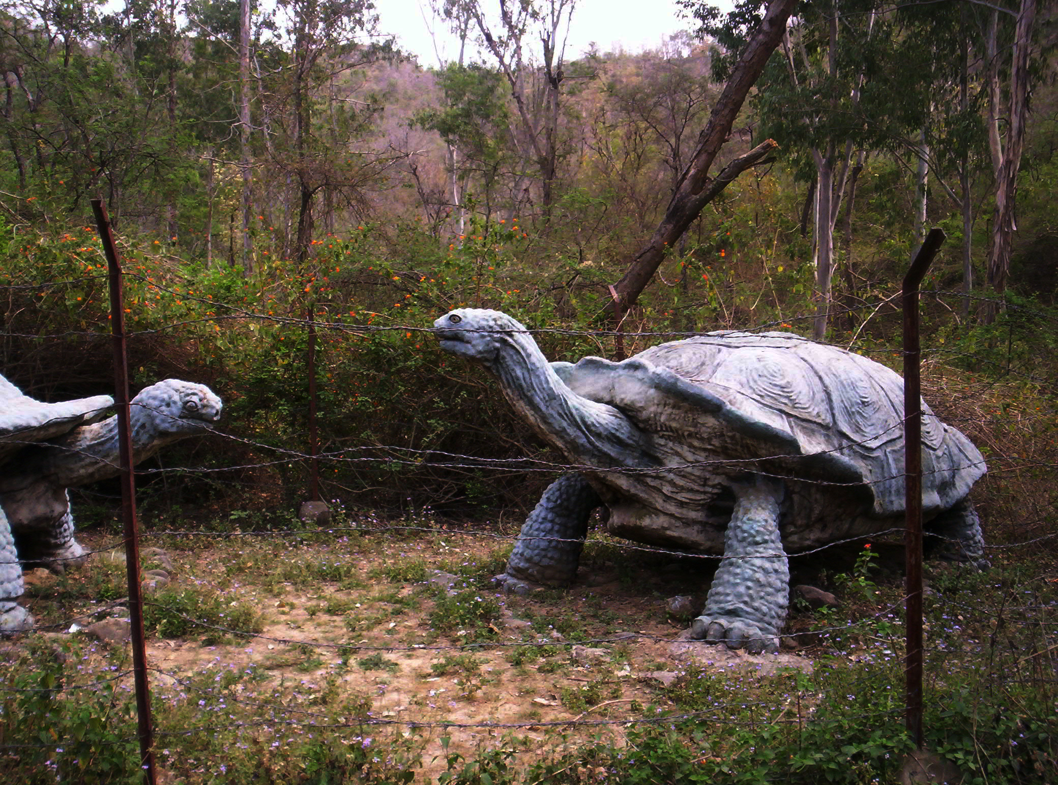 Fibre Glass life size models of Megalochelys atlas an extinct Giant Turtle, which once lived in the Siwalik Hill ranges.